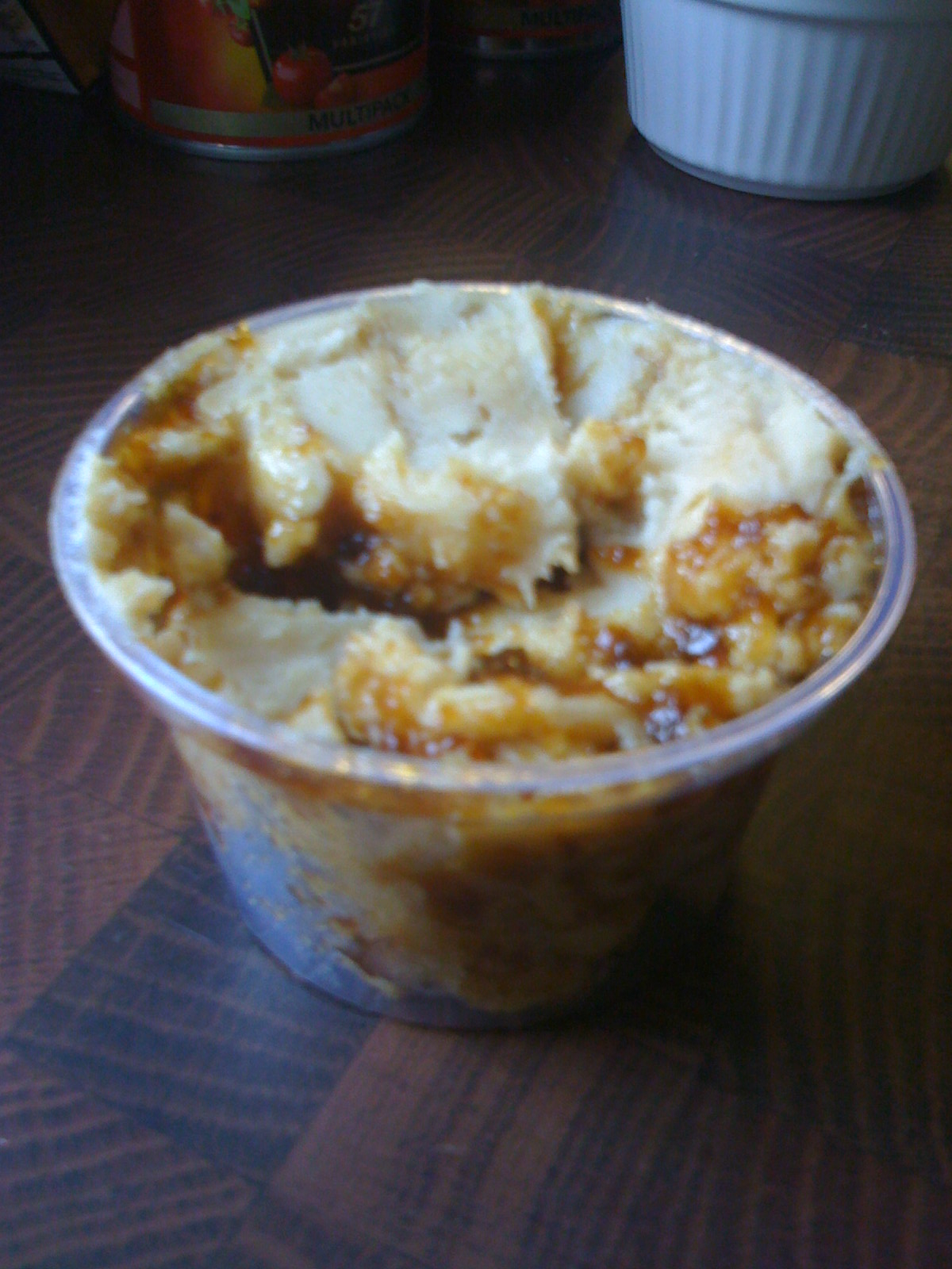 So-called in Yorkshire, United Kingdom: Rendered beef fat, with brown sediment and stock from roast beef